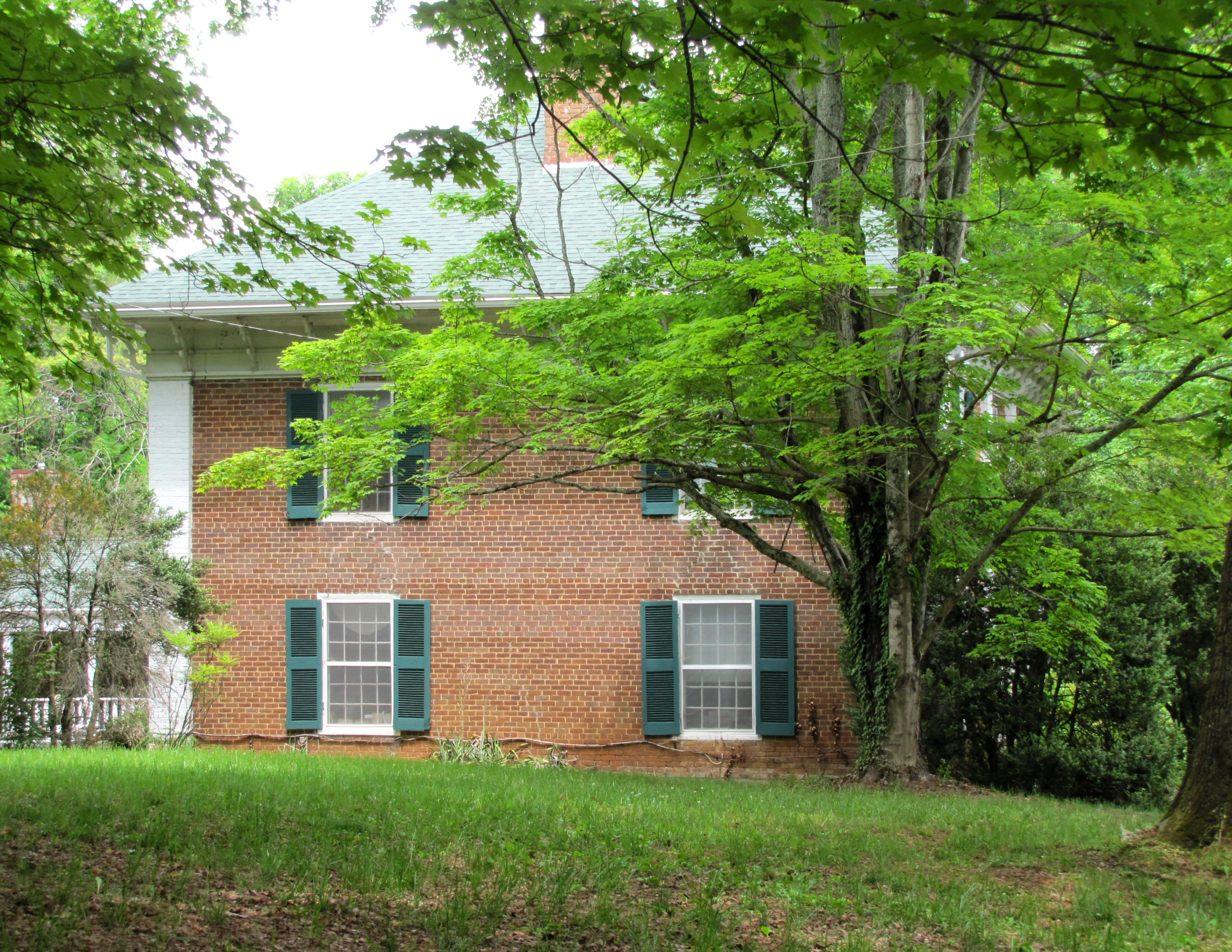 Side view of Squirewood Hall in Dandridge, Tennessee, United States. Built by Judge James P. Swann in 1858, this house is now listed on the National Register of Historic Places.